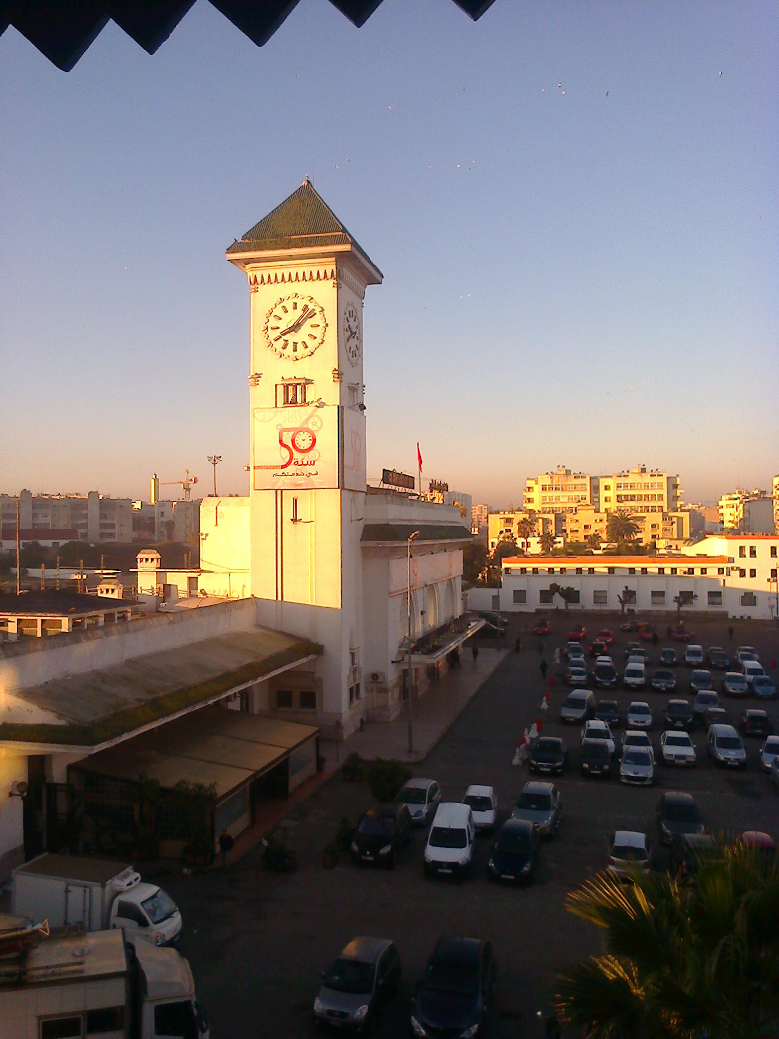 Casa Voyageurs train station in Casablanca, Morocco